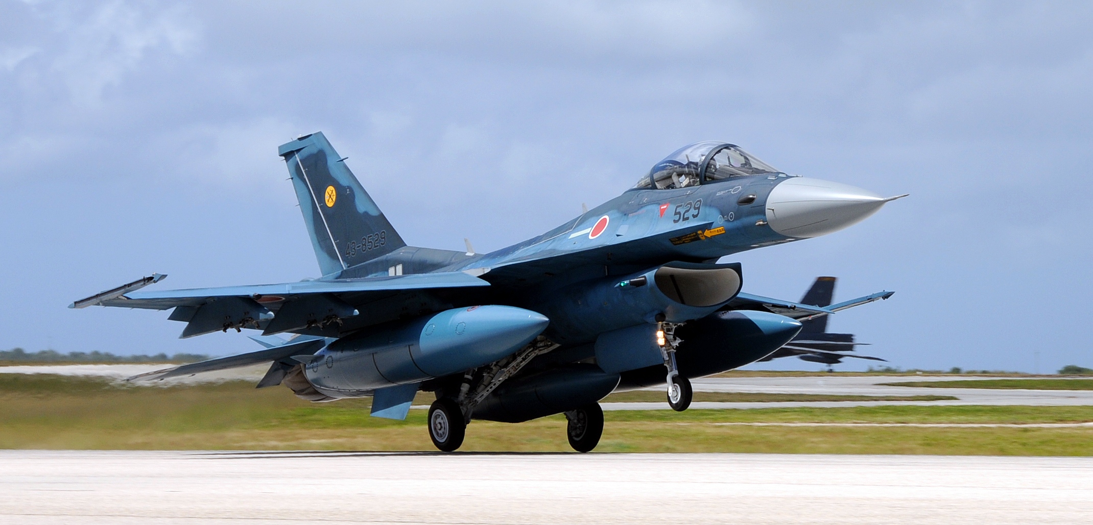 ANDERSEN AIR FORCE BASE, Guam - A Japan Air Self Defense Force F-2A (529) lands here Jan. 30 to participate in the two-week Cope North exercise. The Japanese F-2 single-engine fighter has performance capabilities roughly comparable to those of the U.S. F-16. (U.S. Air Force photo by Airman 1st Class Courtney Witt) ↑ 日米エアフォース友好協会 ↑ Cope-North 09-1 グアム参加航空機帰国